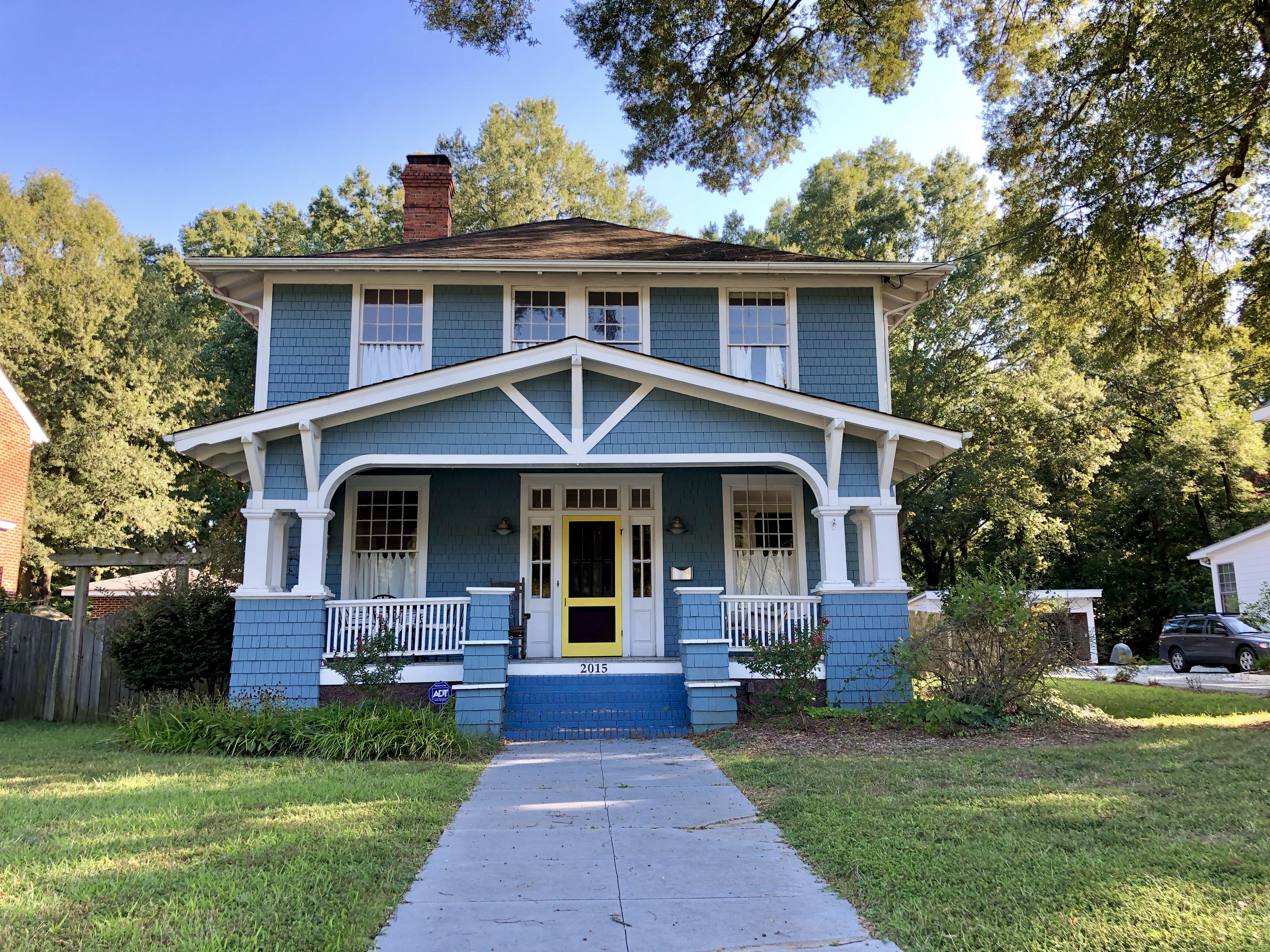 This house on West Club Boulevard in Durham, North Carolina is a contributing structure in the Watts–Hillandale Historic District, listed on the National Register of Historic Places in 2001.